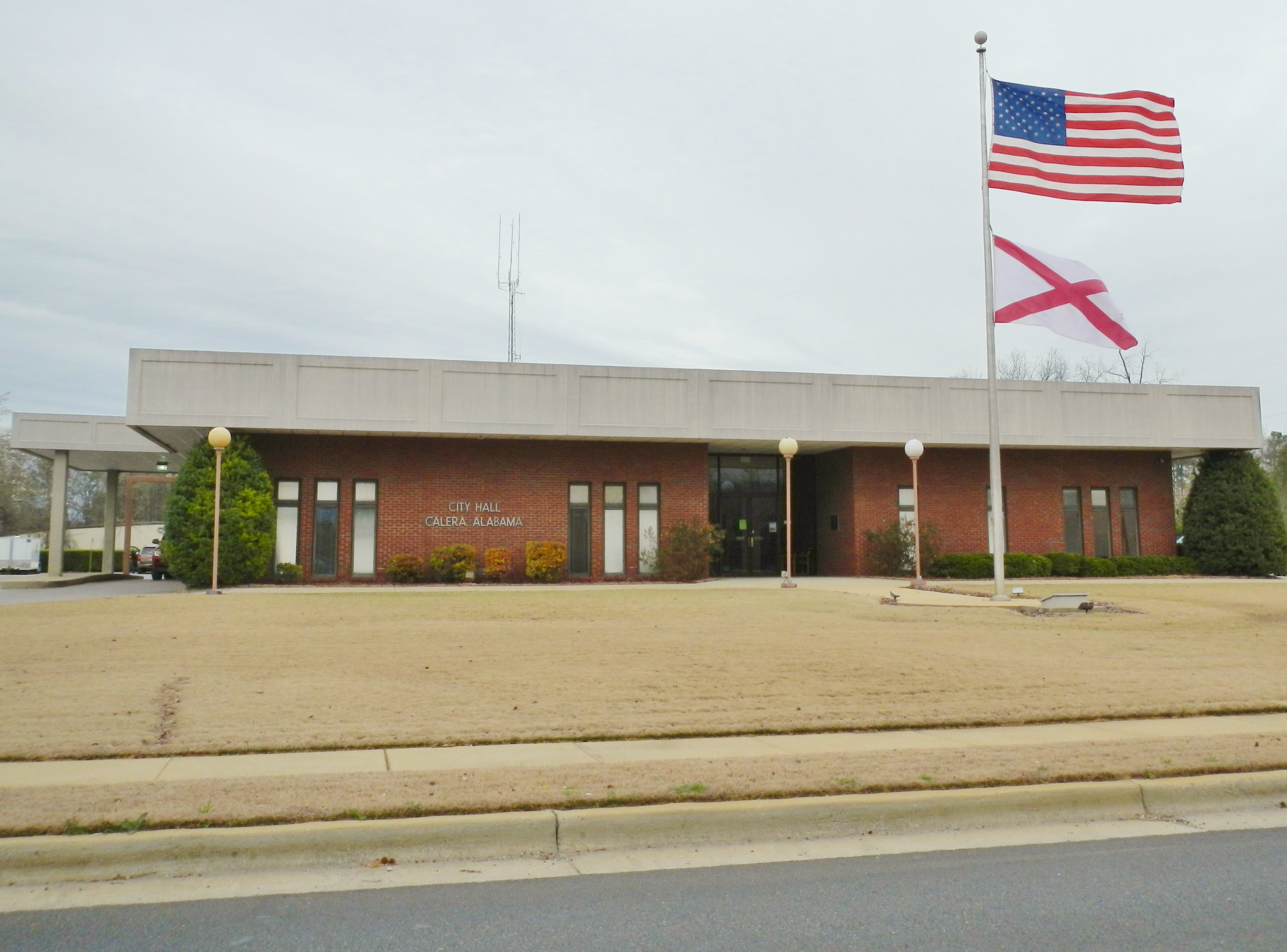 This is a photograph of the city hall in Calera, Alabama.